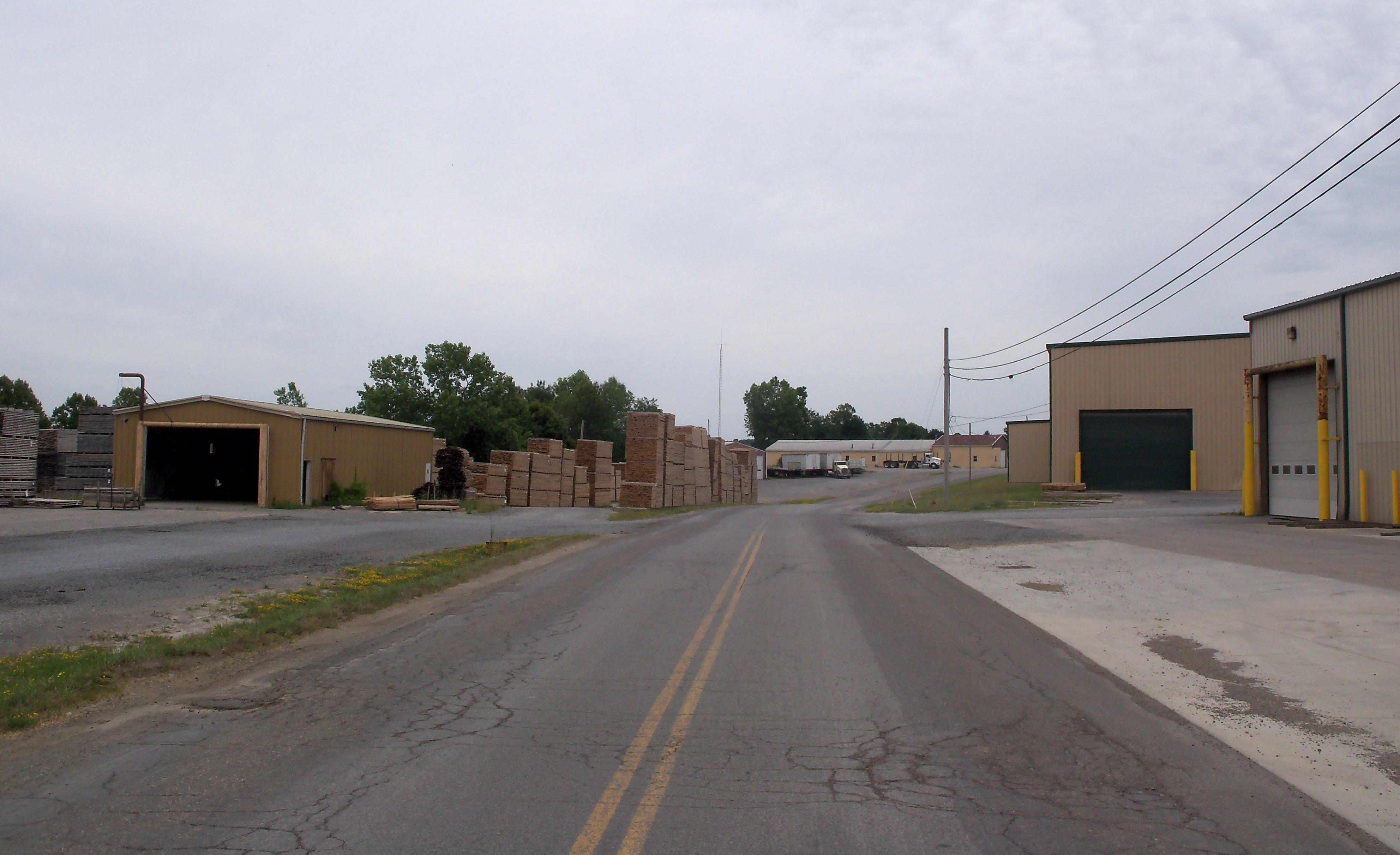 Rough cut hardwood lumber sits in stacks next to Holmes County, Ohio Road #407 near Ohio State Route 83 at a large sawmill and kiln called Yoder Lumber.